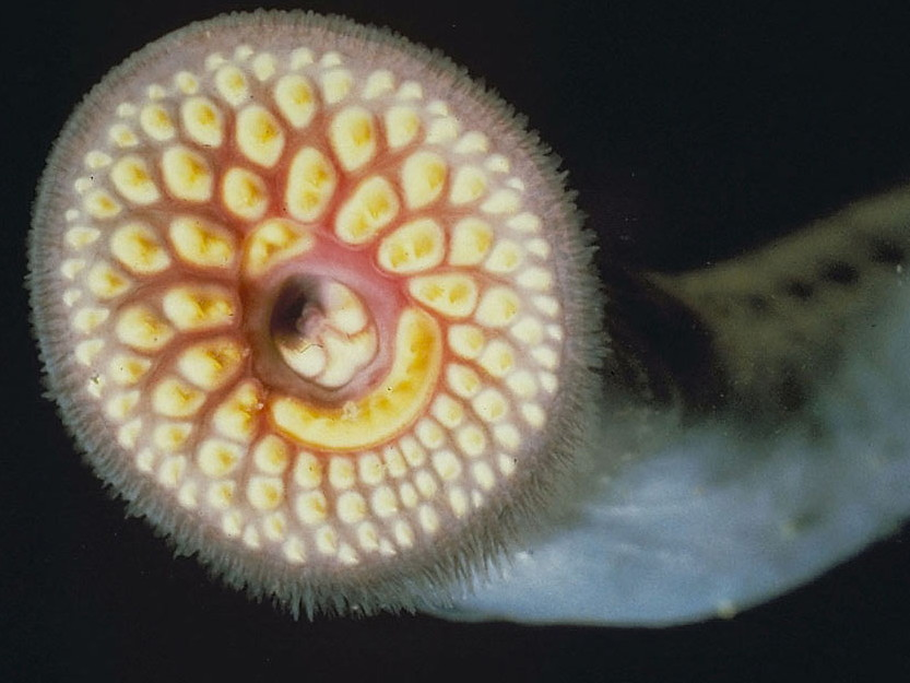 Petromyzon marinus, sea lamprey. U.S. Fish and Wildlife Service Photo